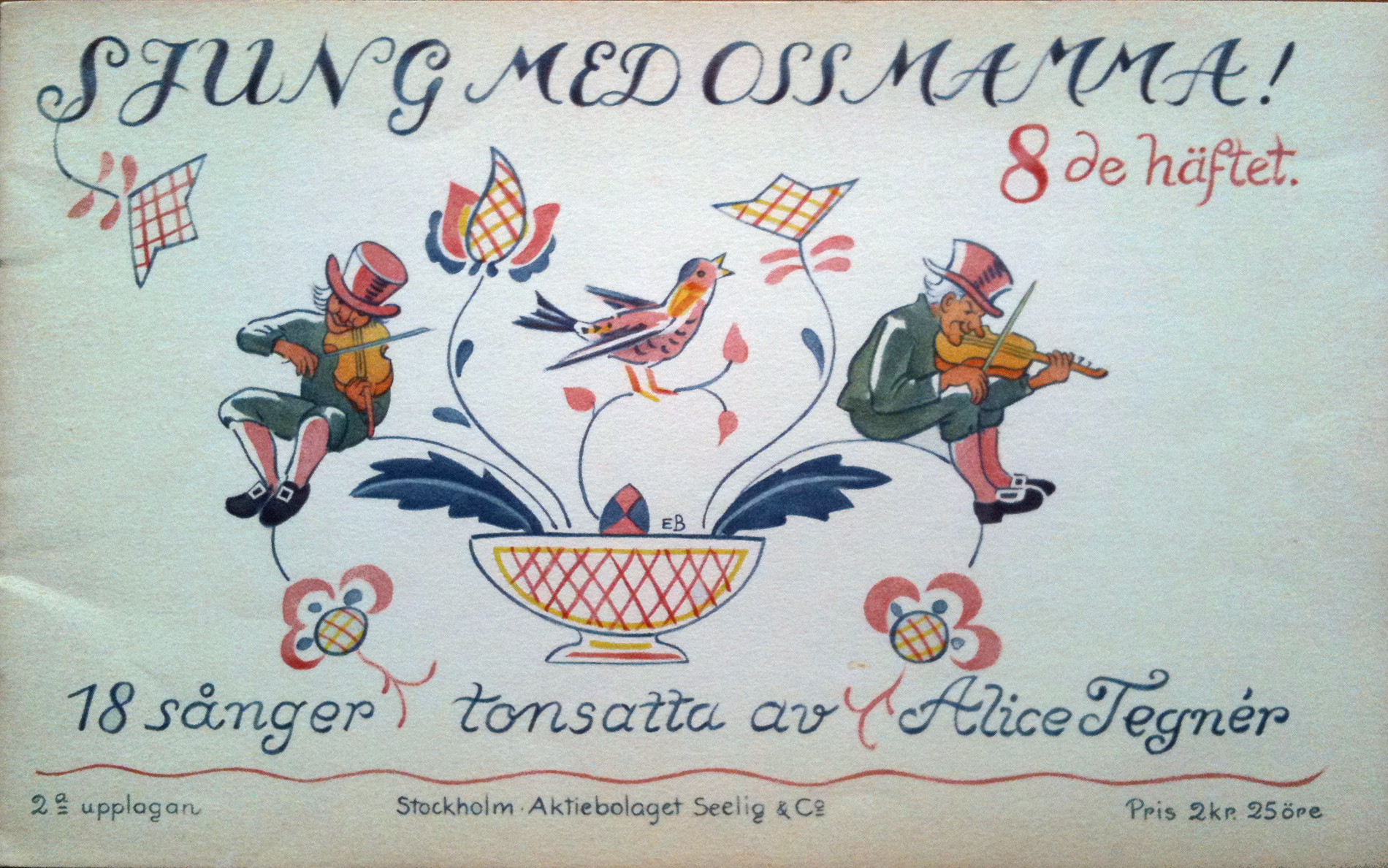 Songbook cover of Alice Tegnér: "Sjung med oss, Mamma!", part 8